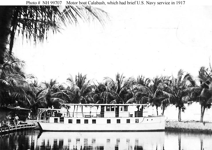 Civilian motorboat Calabash prior to her United States Navy service as patrol boat USS Calabash (SP-108)